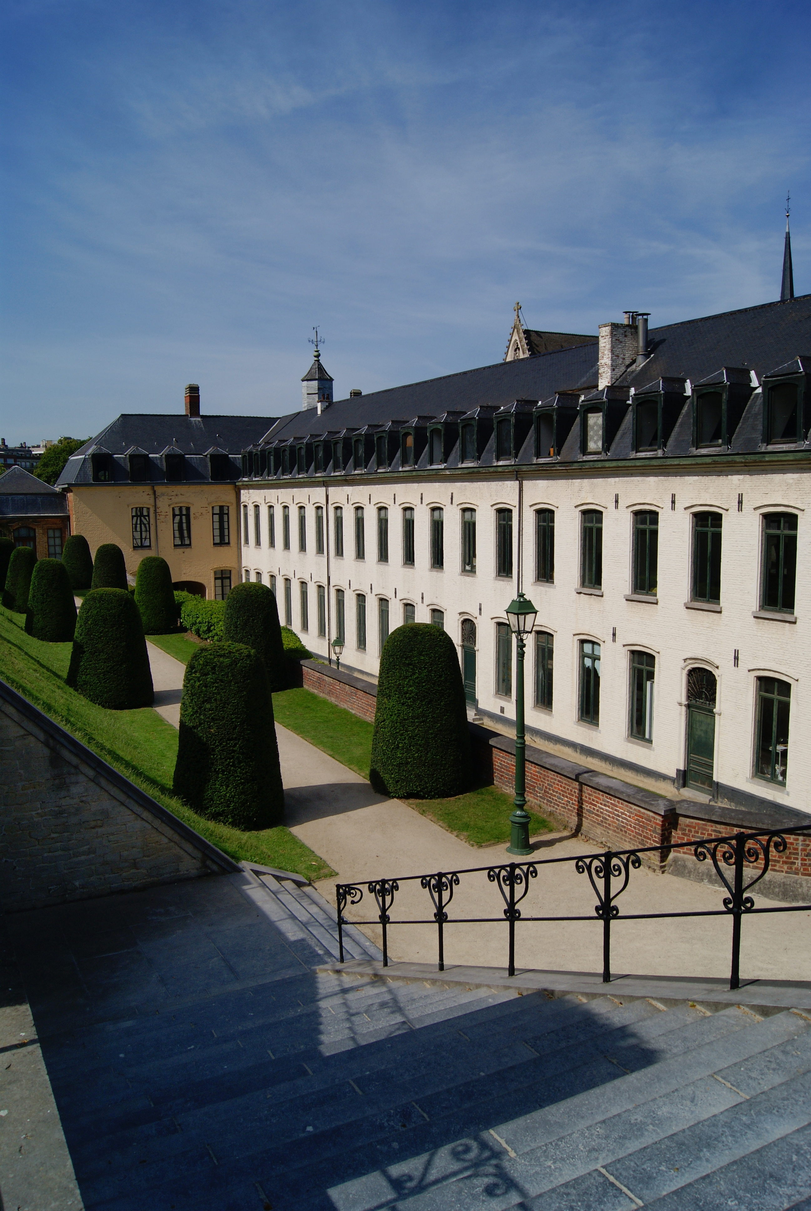 The abbey de la Cambres (Ixelles, Belgium).